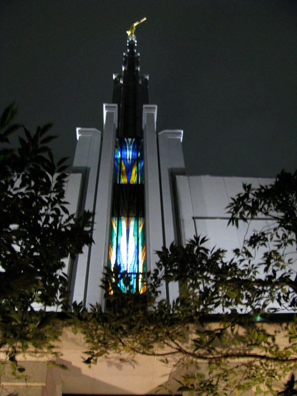 Front of the Tokyo Japan Temple of the Church of Jesus Christ of Latter-day Saints.